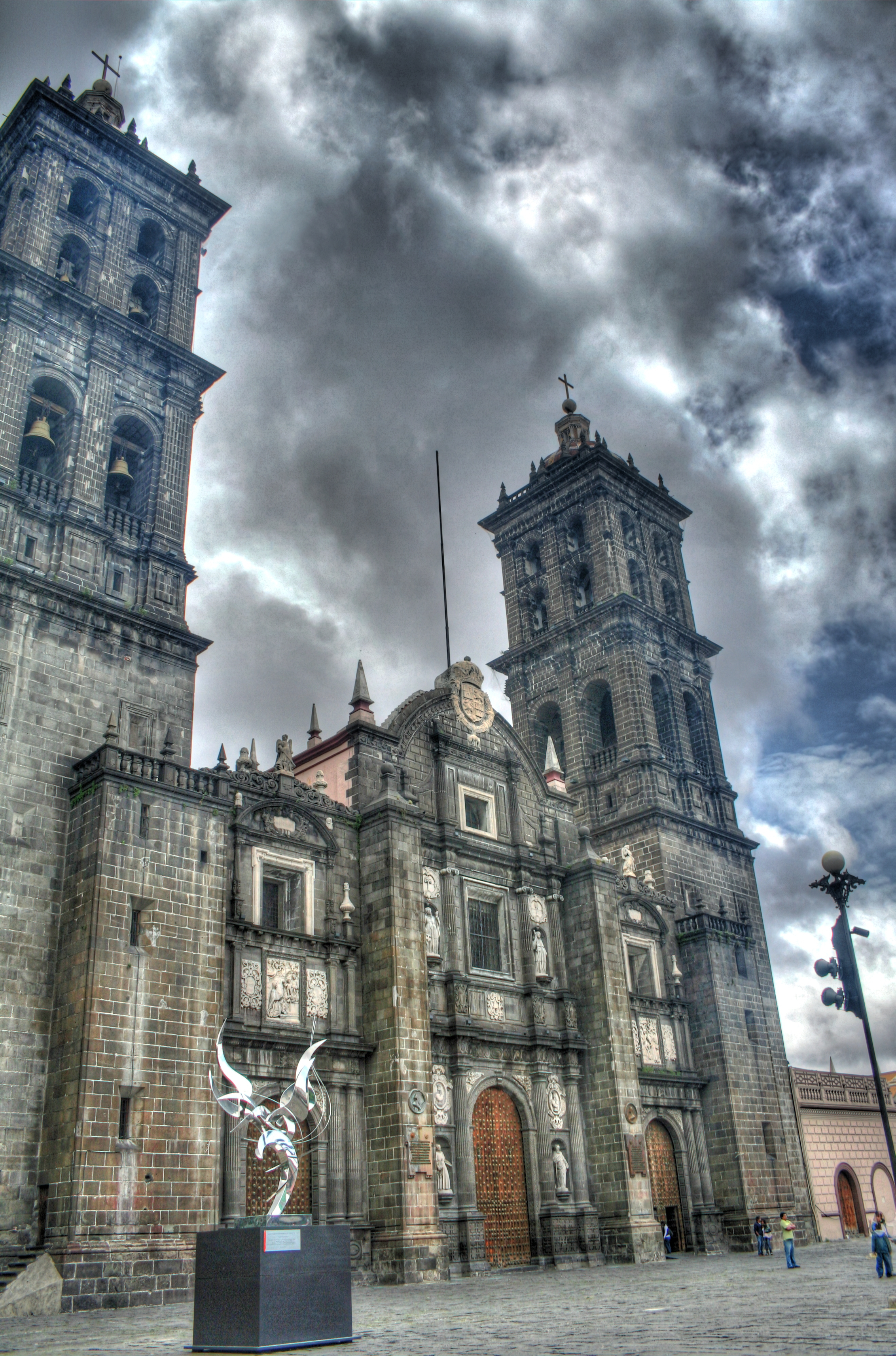 HDR picture of angelopolitan cathedral in Puebla city